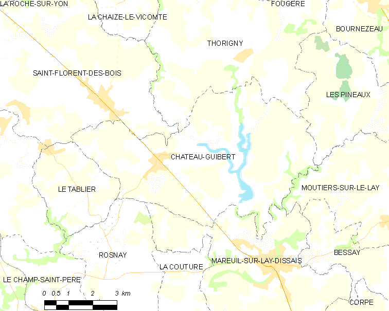 Map of French municipality Château-Guibert